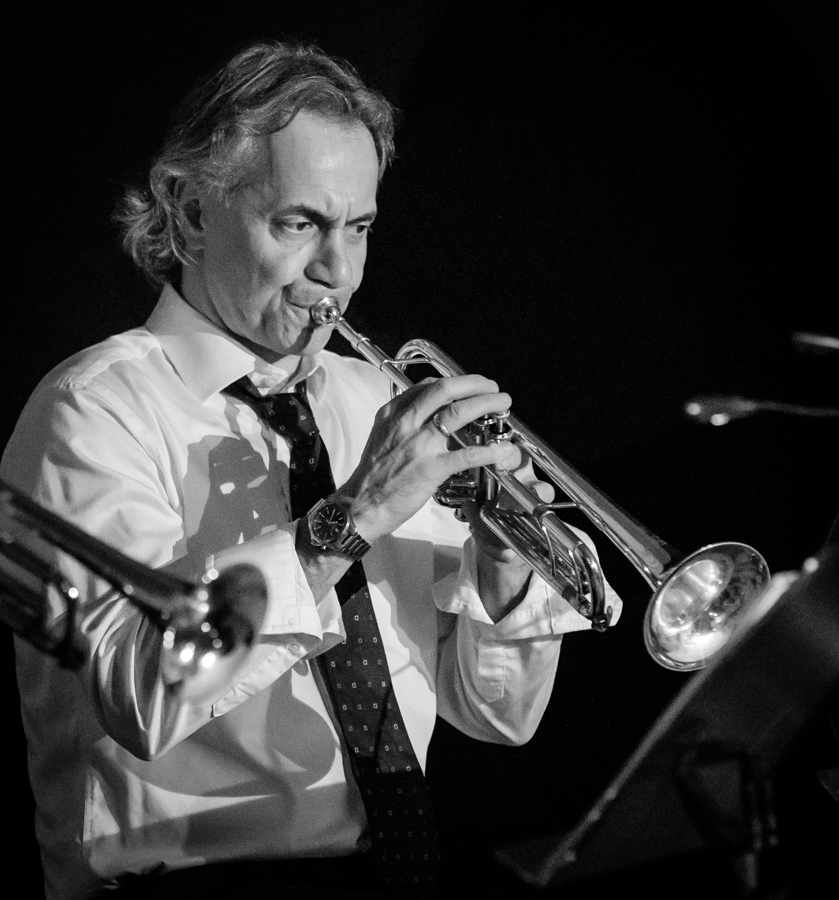 Eckhard Baur with Never on a Sunday at the stage in Fjøsen. The concert was part of Jazz på Jølst and took place at Skei on 13. October 2017. Lineup: Ragnhild Furebotten (fiddle), Helge Sunde (trombonium), Frode Nymo (saxophone), Atle Nymo (saxophone), Marius Haltli (trumpet), Eckhard Baur (trumpet) and Lars Andreas Haug (tuba).